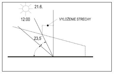 vyloženie strechy sokratovho domu